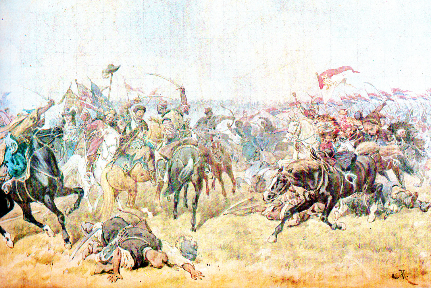 Battle of Zborow 1649